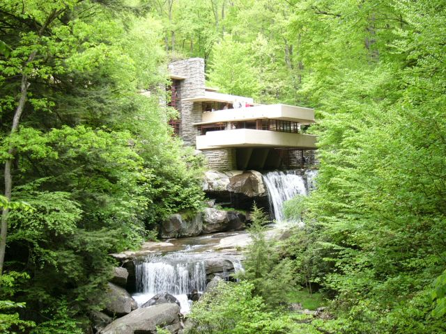 Fallingwater in West Orange